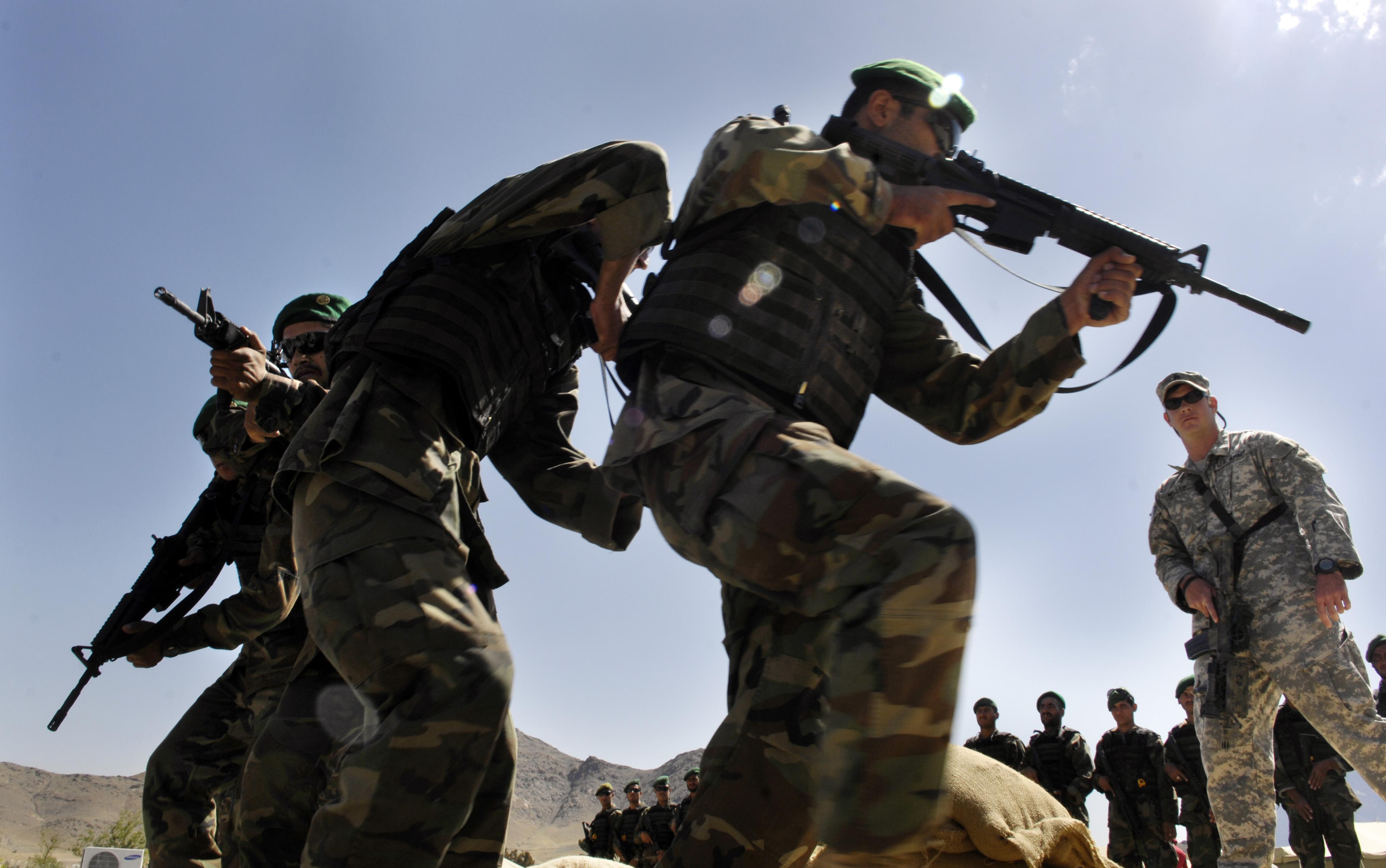 Afghan National Army members receive training on the proper way to clear a room at Morehead Commando Training Camp in Kabul, Afghanistan, June 4, 2007. Defense Dept. photo by Cherie A. Thurlby